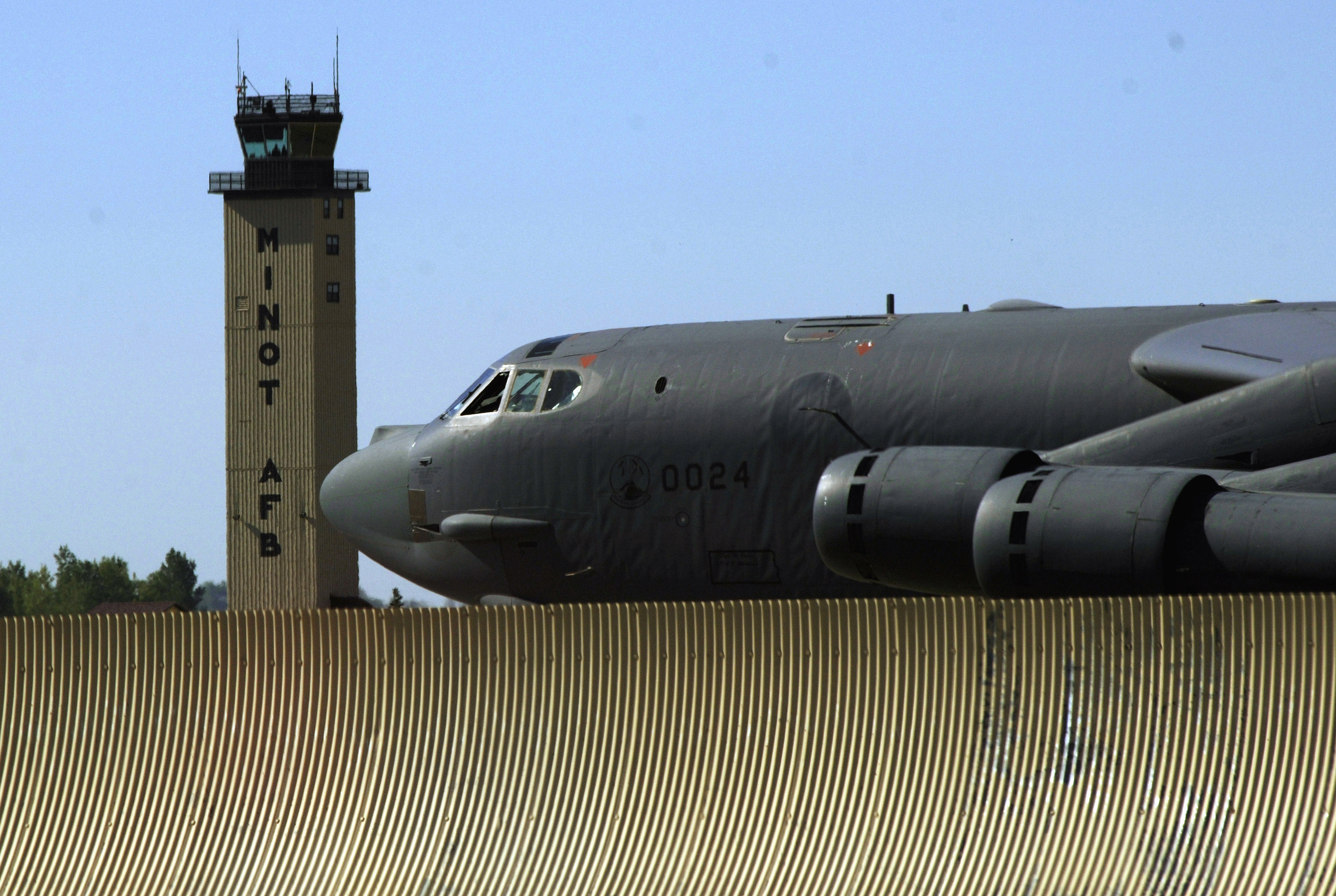 A B-52H with the 5th Bomb Wing taxis past the Minot AFB control tower.